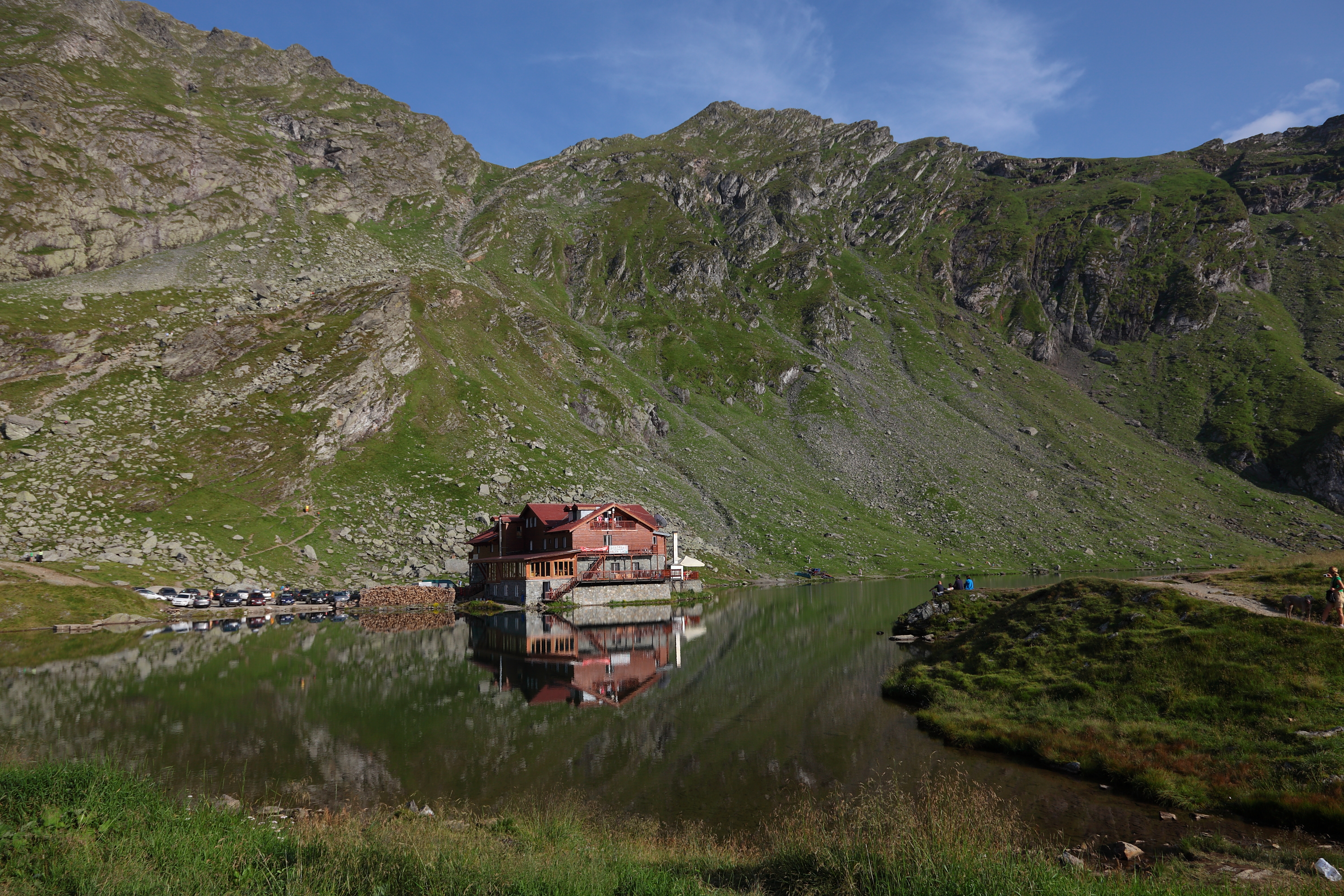 Balea lake and chalet